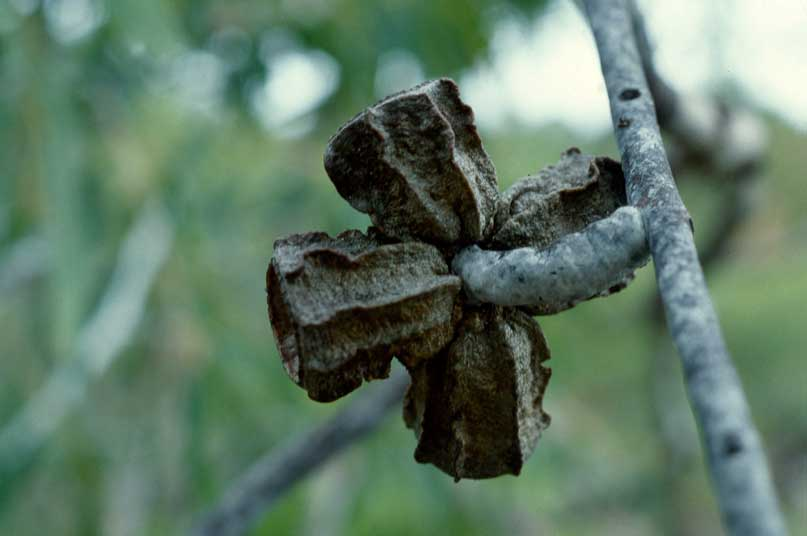 Fruit of Eucalyptus miniata in Kakadu National Park, Northern Territory